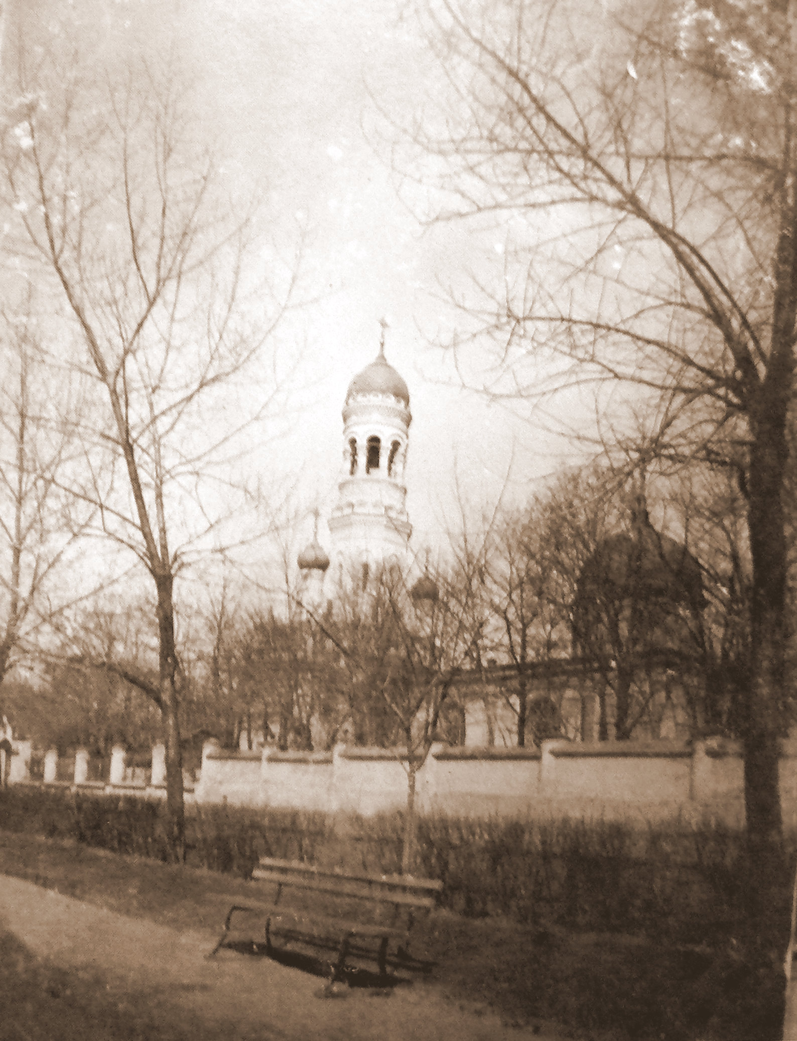 Mironositsky church in Kharkiv